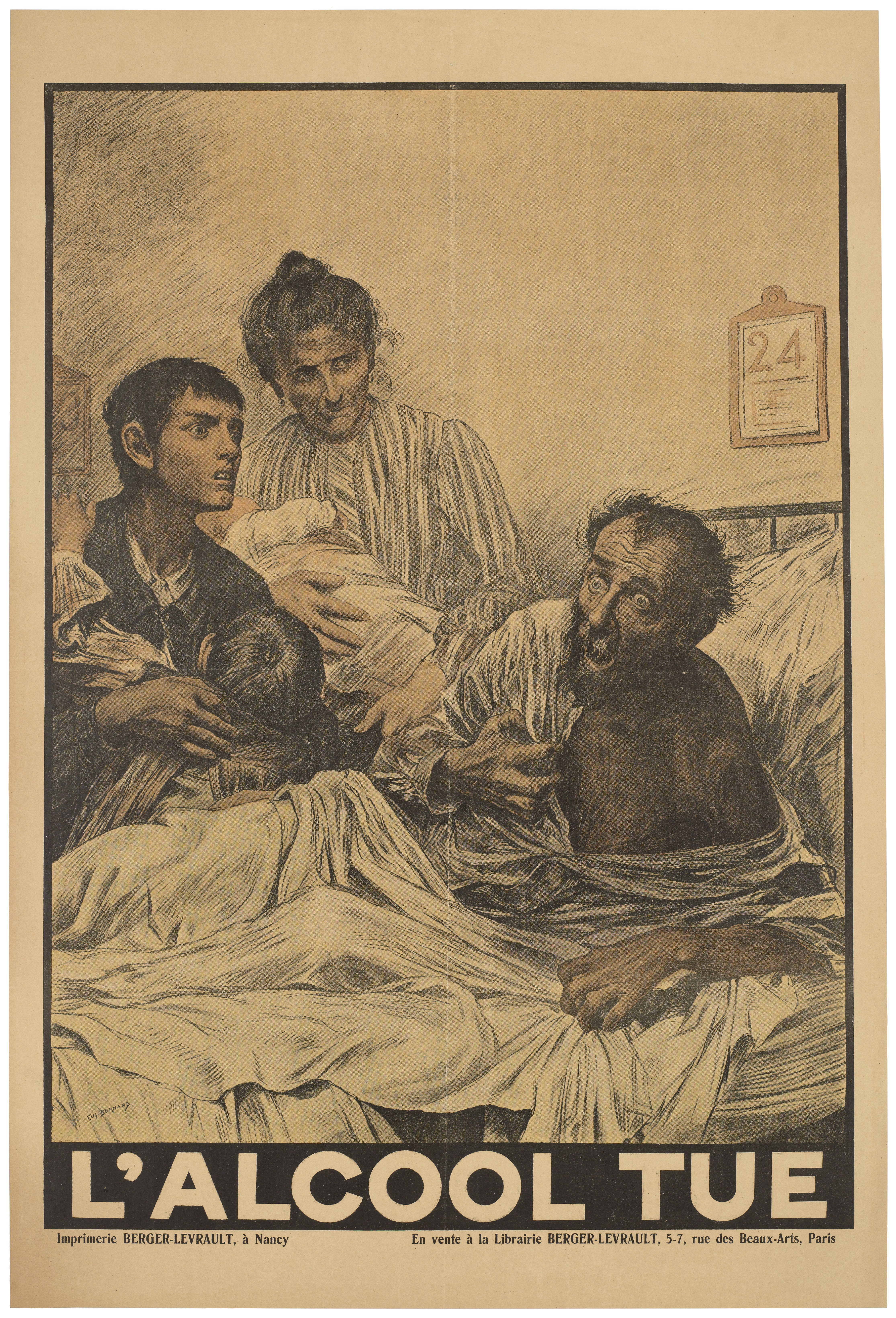 An alcoholic man with delirium tremens on his deathbed, surrounded by his terrified family. The writing on the bottom of the image says "alcohol kills". Iconographic Collections Keywords: Eugène Burnand